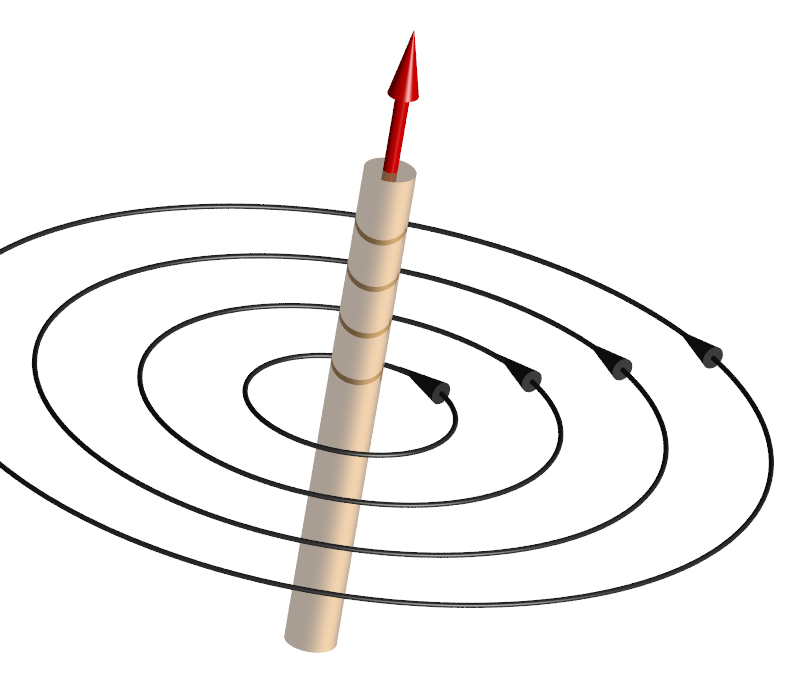 Magnetic field around current